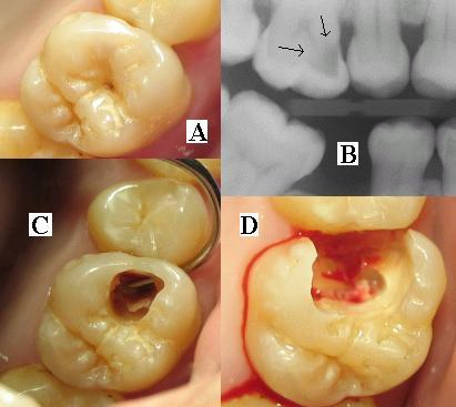 The tooth shown is #14.